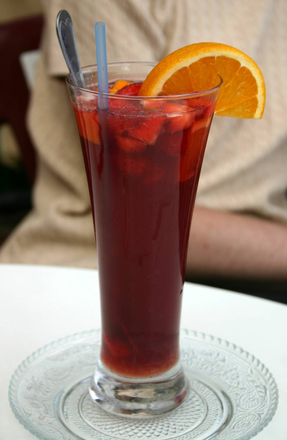 We visited Spain's Costa del Sol in April 2004 and didn't see any sun at all. We stayed at Torremolinos - nothing special and took a day trip into Malaga -not a bad city at all and I remember they had good Sangria.